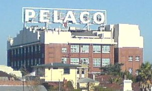 Historic Pelaco Sign / Building in Richmond, Victoria, Australia. Photo taken from the roof beer garden of the Mountain View pub, Bridge Road.